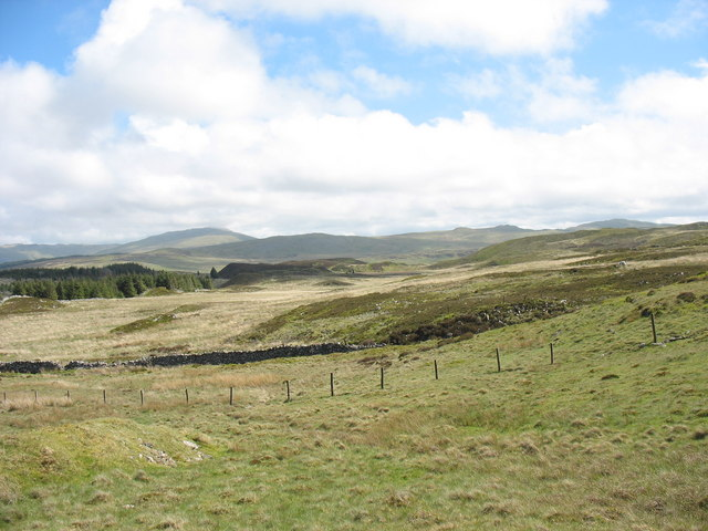 Bogland south of the upper Afon Prysor